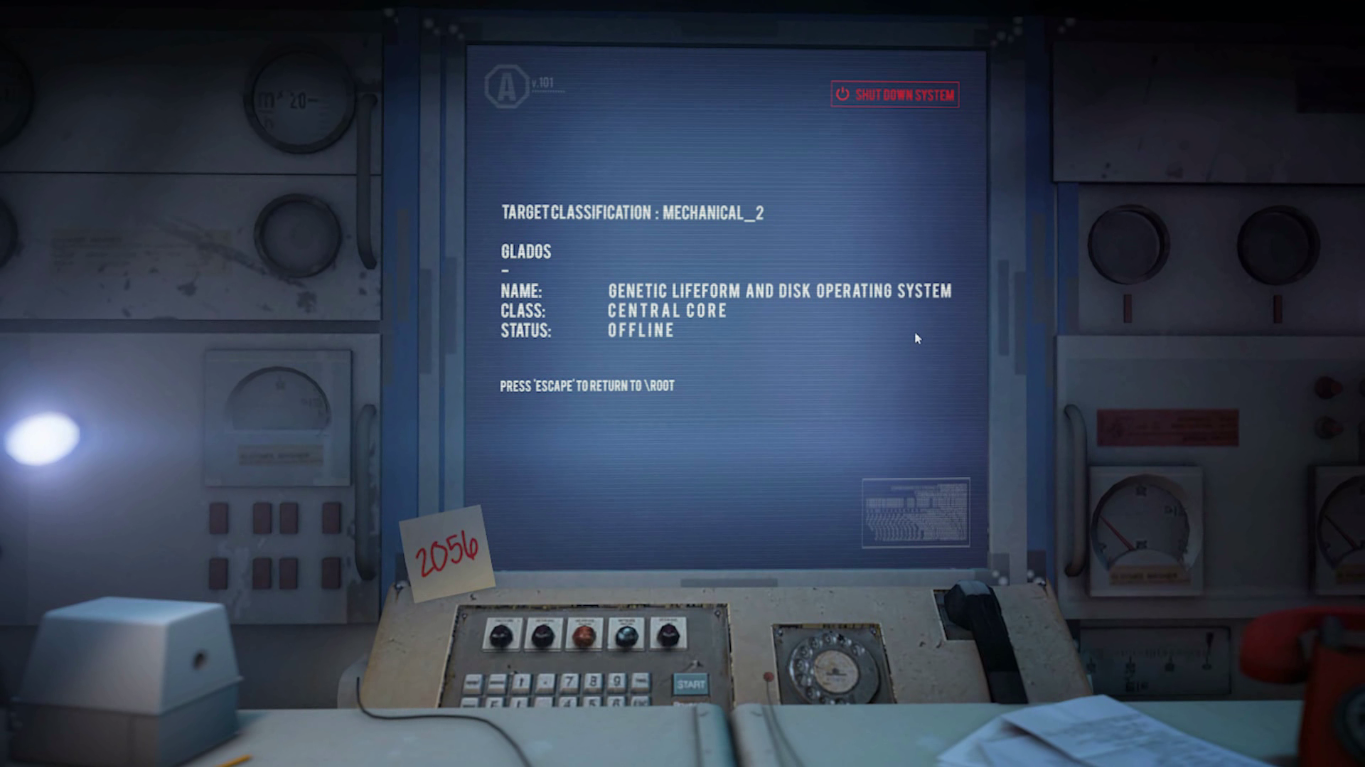 Mel and Virgil discovers that AEGIS was trying to destroy GLaDOS permanently. By turning off AEGIS, Virgil is worried about a possible return of GLaDOS. Screenshot of the game Portal Stories: Mel. Authorized upload after making a request to Prism Studios Ltd.